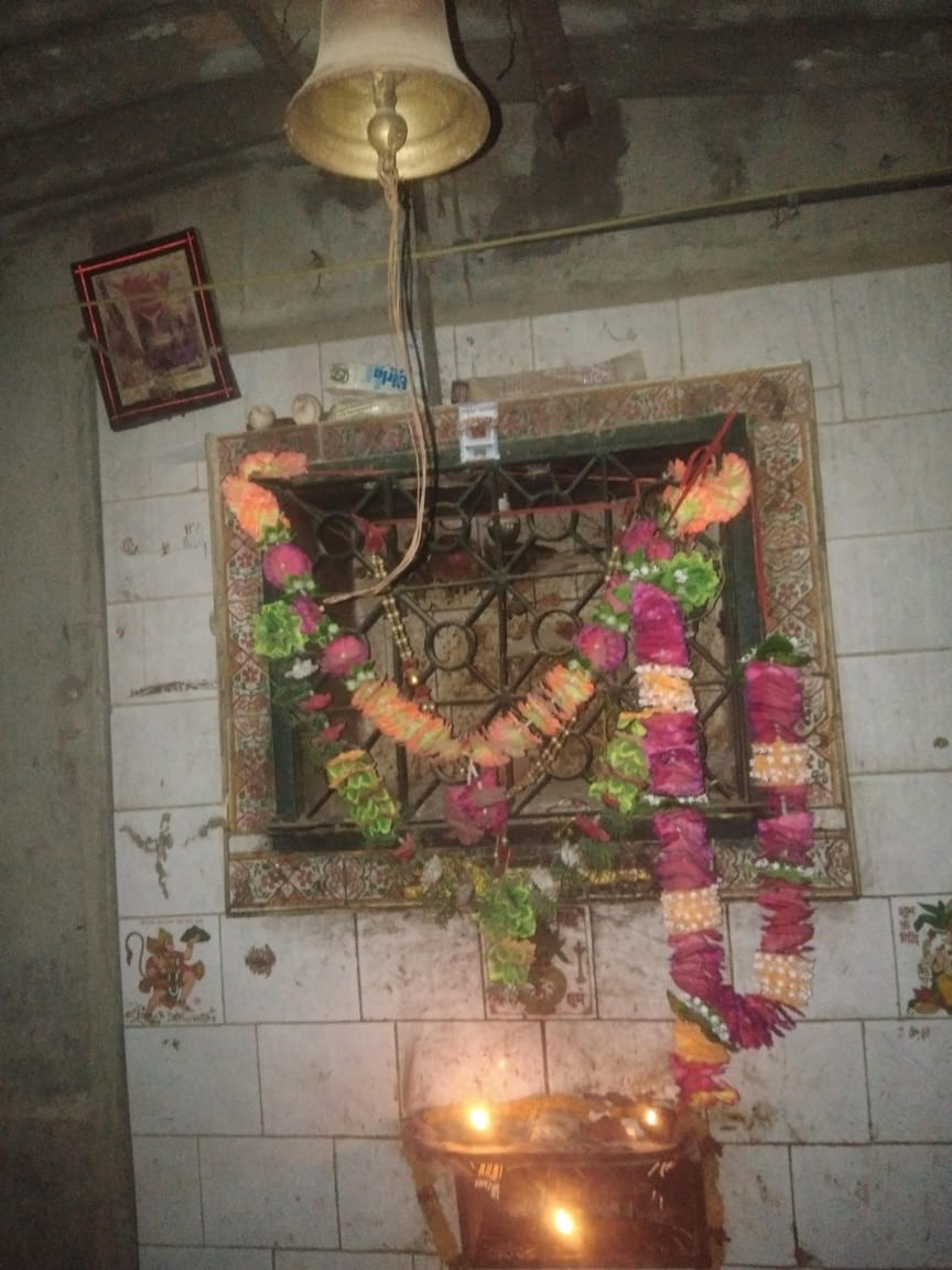 This ancient shrine belongs to Dada Kotadiya, the center of faith of many people. ગુજરાતી: આ પ્રાચીન મઢ અનેક લોકોની આસ્થાનું કેન્દ્ર એવા ડાડા કોટડીયાનું છે.